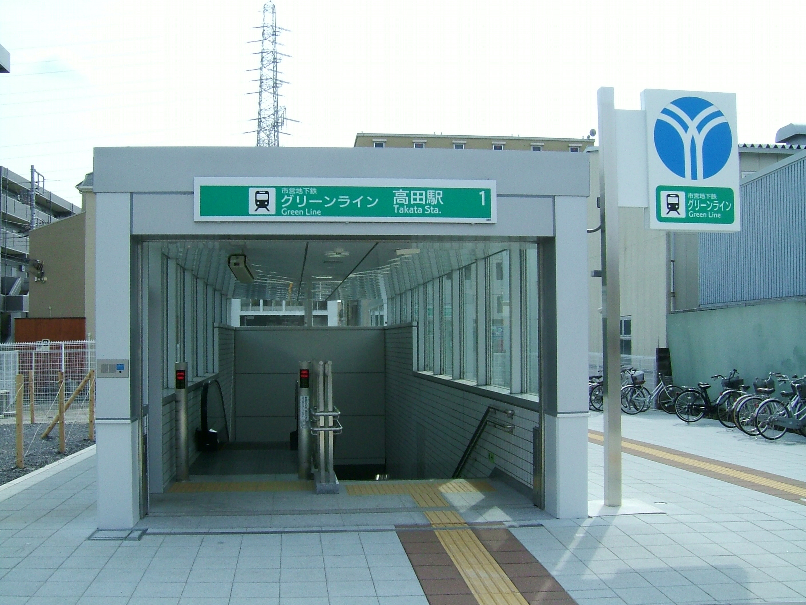 Takata Station no.1 entrance (Yokohama Municipal Subway Green Line)